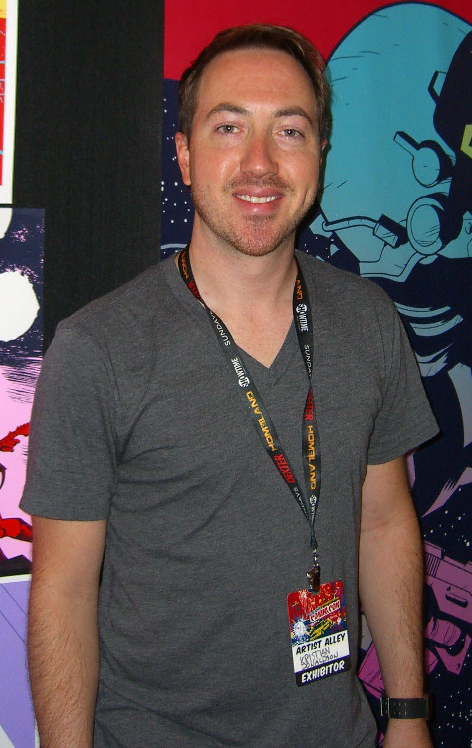 Comics creator Kristian Donaldson during an October 16, 2011 appearance at the New York Comic Con in Manhattan. This photo was created by Luigi Novi. It is not in the public domain, and use of this file outside of the licensing terms is a copyright violation.